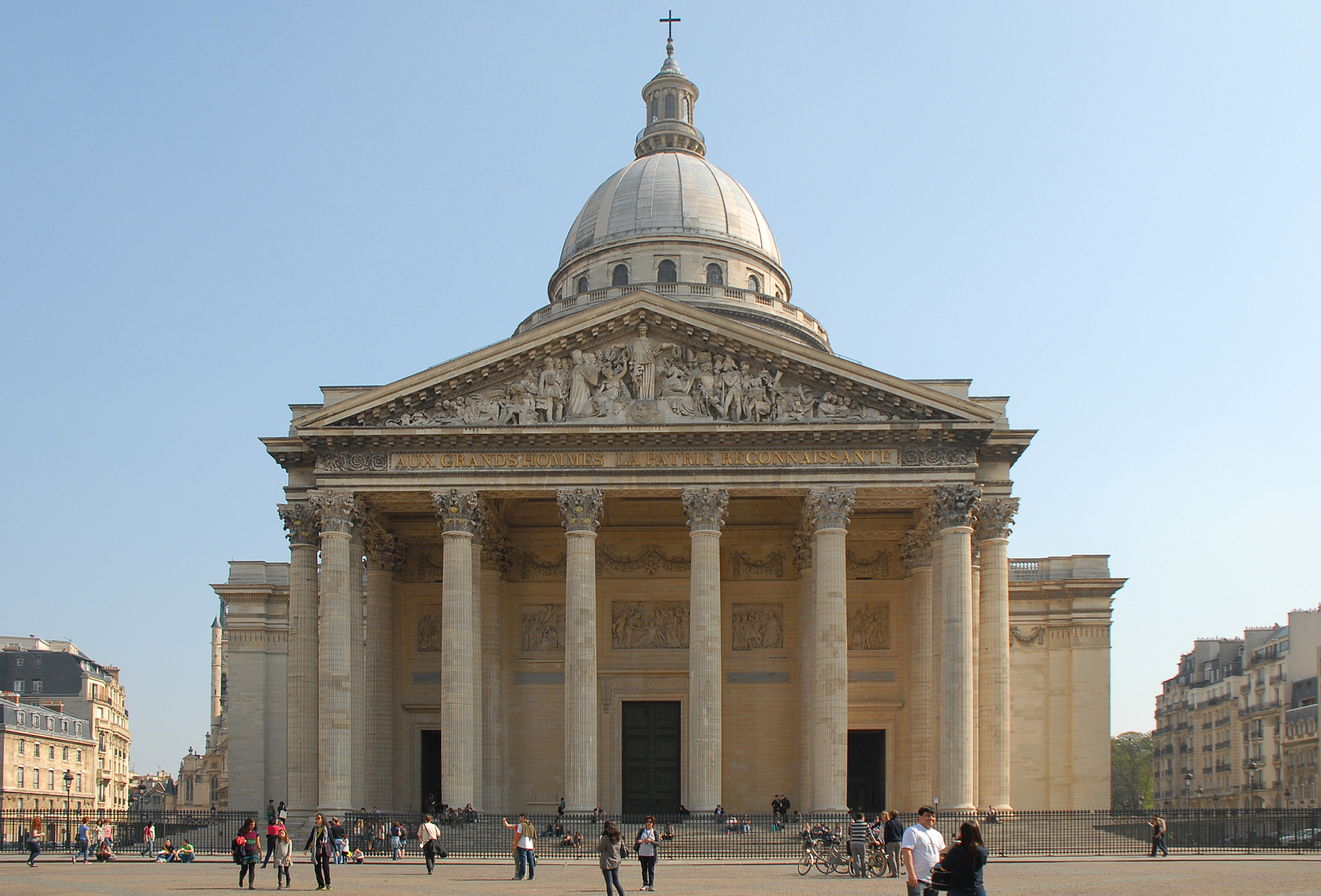 The Pantheon, Paris, France.